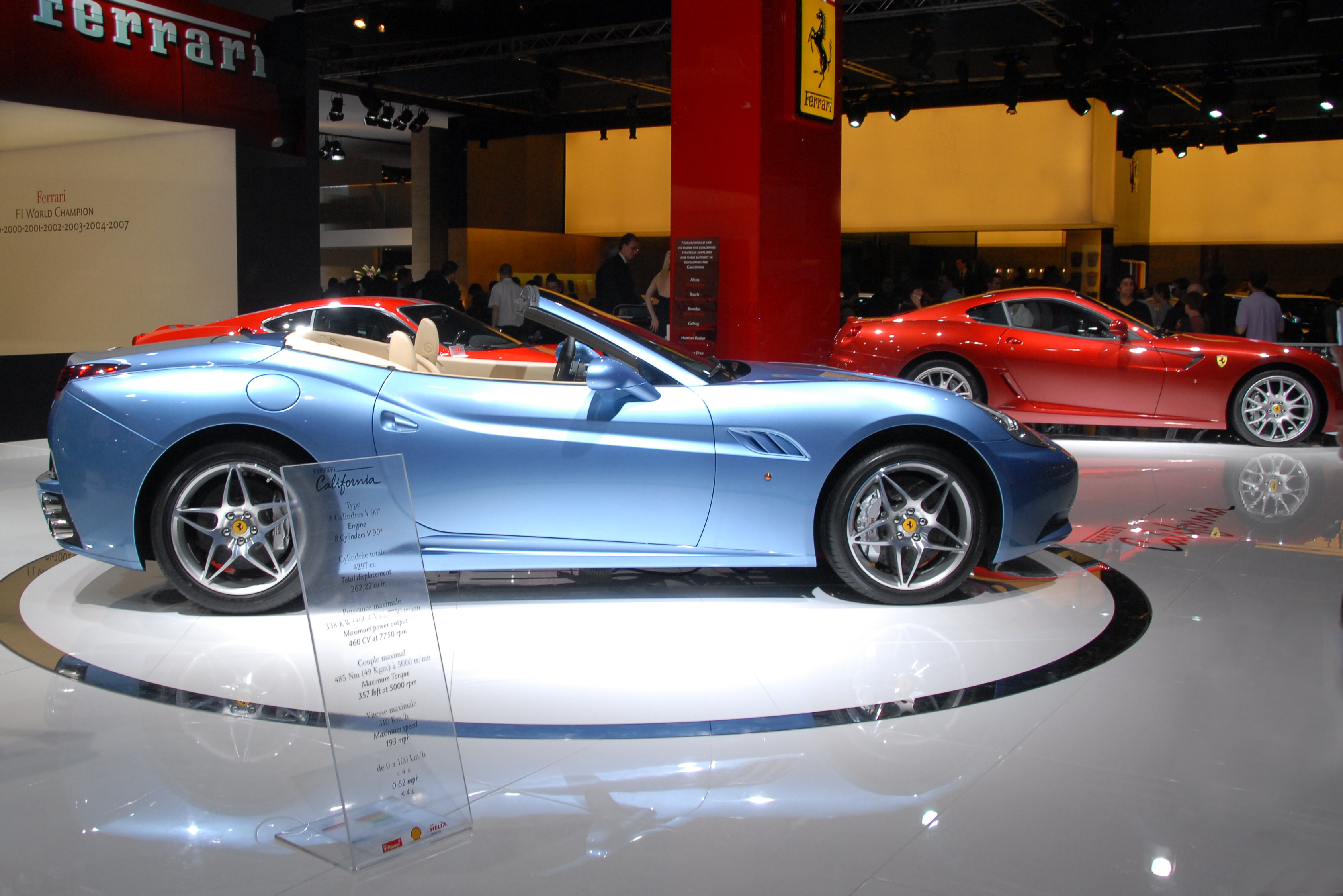 Ferrari California at 2008 edition of the "Mondial de l'automobile" in Paris.